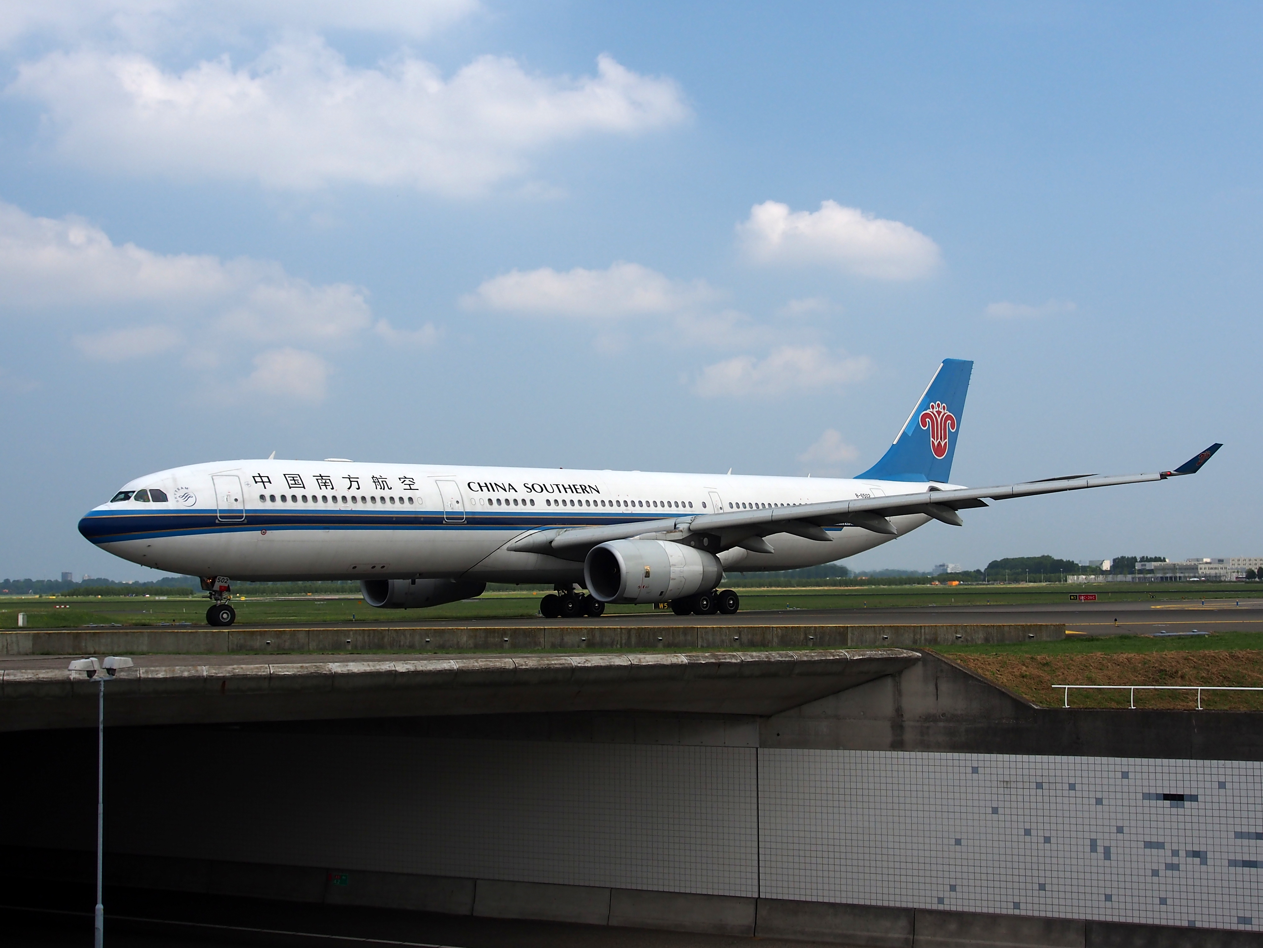 Photographed at Amsterdam airport Schiphol, the Netherlands.